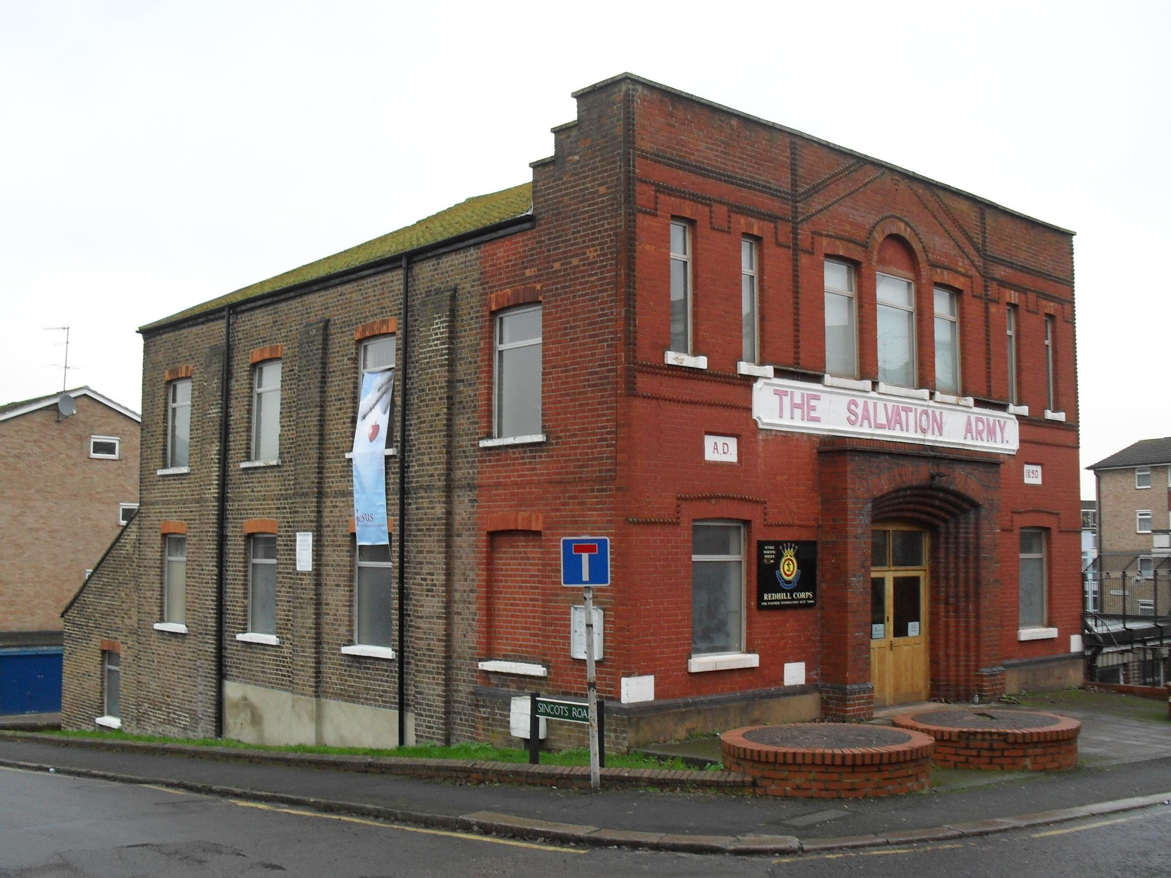 Salvation Army Citadel, Chapel Road, Redhill, Reigate and Banstead District, Surrey, England.